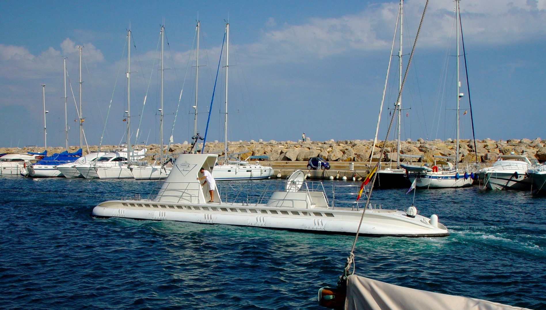 Tourist submarine "Nemo" in the port of Portals Nous, Balearic Islands, Majorca, Spain.